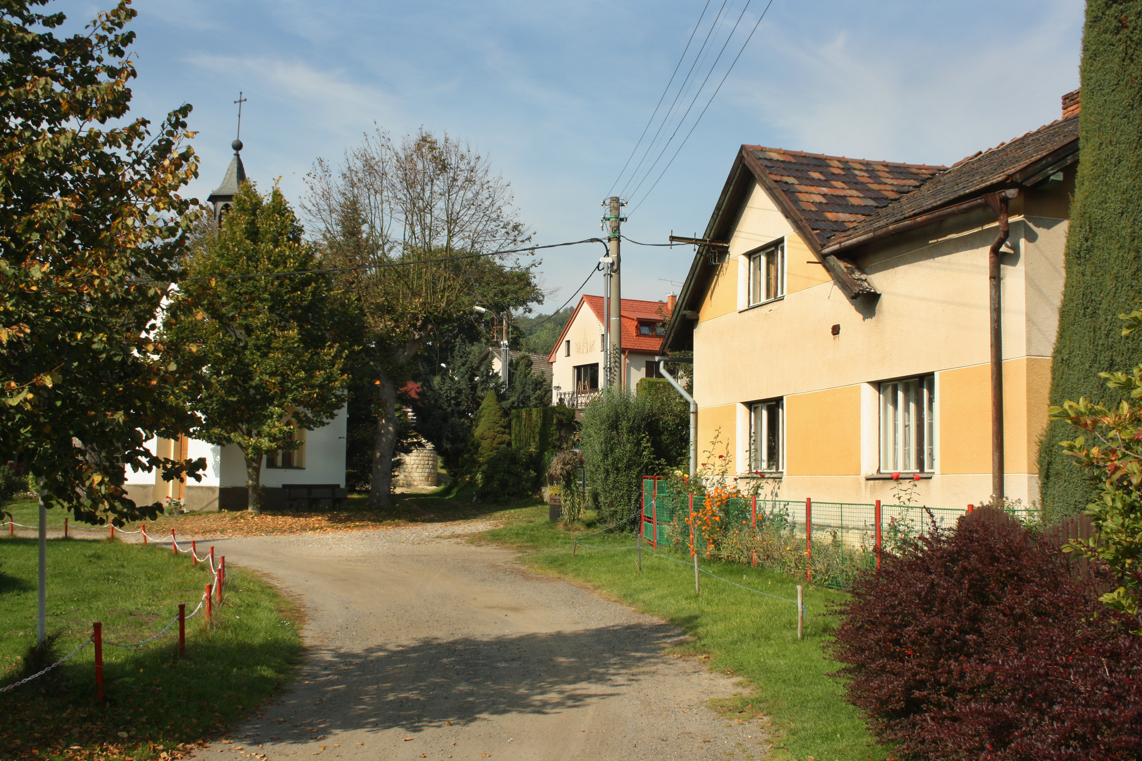 Common in Srbsko, part of Kněžmost, Czech Republic